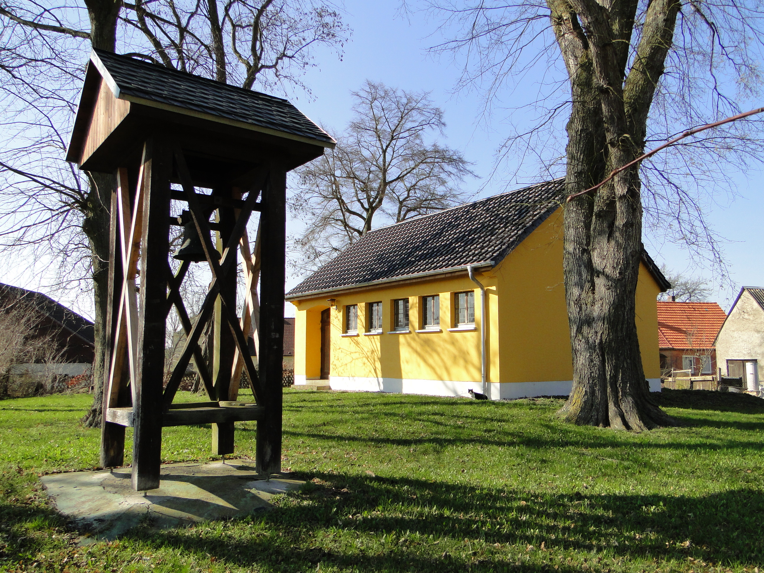 Chapel in Roggentin, disctrict Mecklenburg-Strelitz, Mecklenburg-Vorpommern, Germany